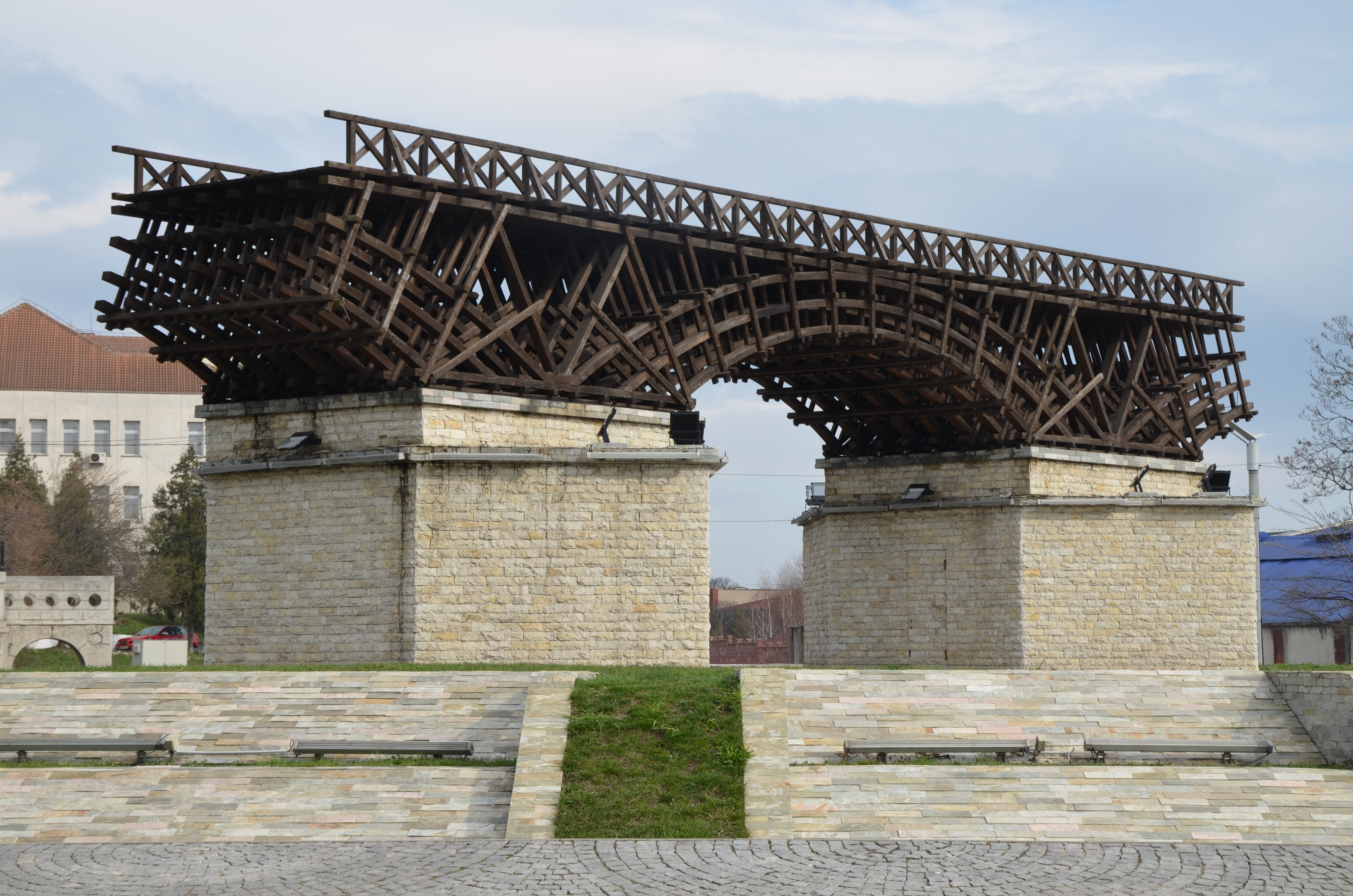 Trajan's Bridge over the Danube, Romanian side